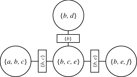 This is an example junction tree. I made this image myself.